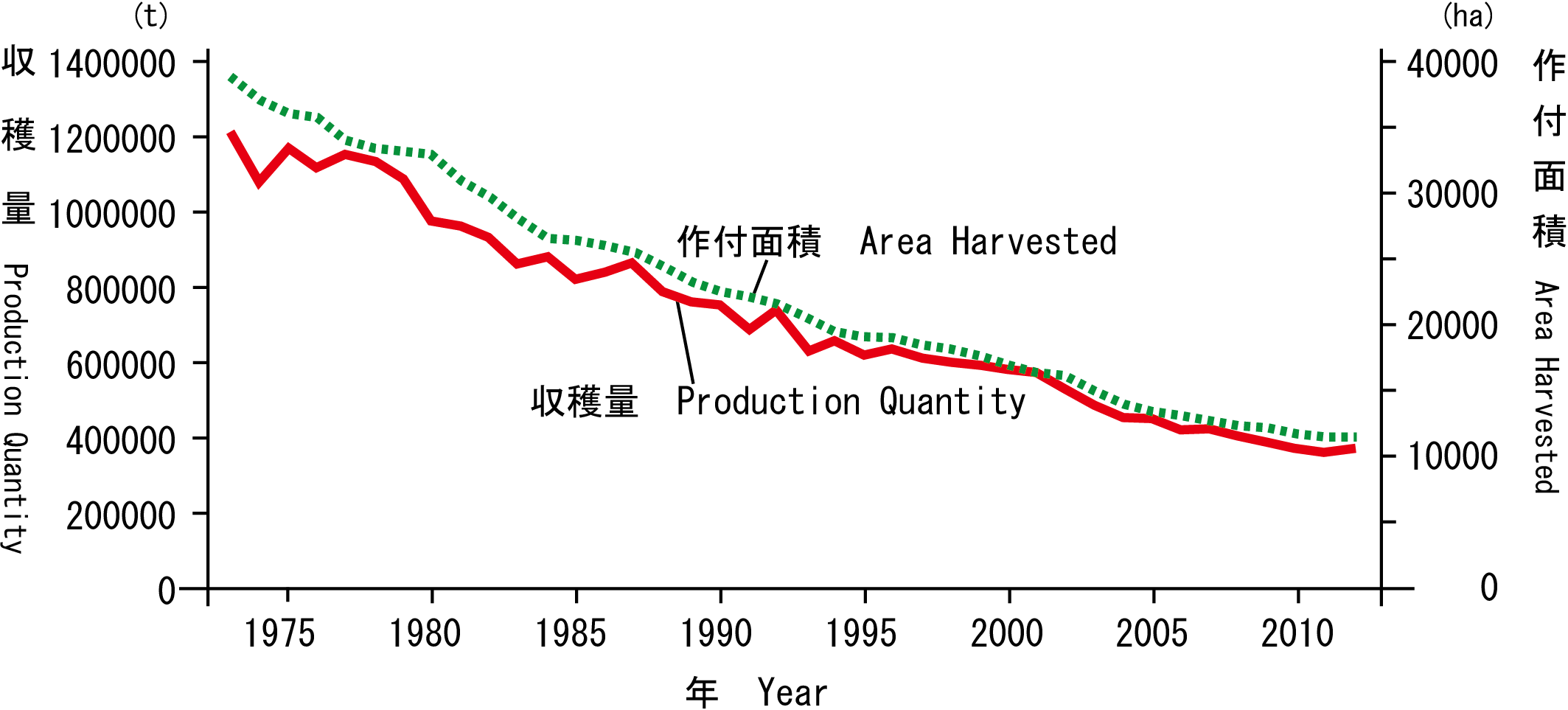 These graphs show production quantity and area harvested of watermelons in Japan from 1973 to 2012. Data source is e-Stat, powered by Statistics Bureau, Ministry of Internal Affairs and Communications, Japan.